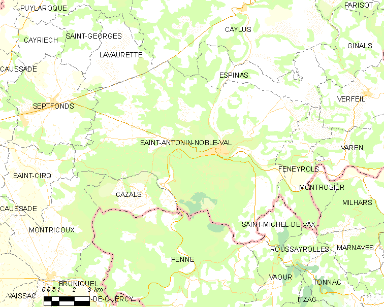 Map of French municipality Saint-Antonin-Noble-Val